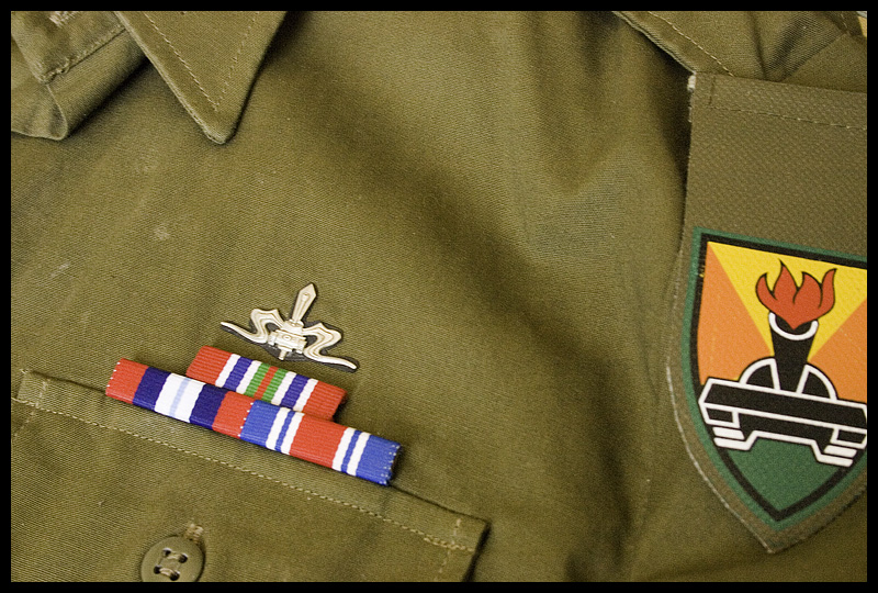 IDF Palsar7 tag and some war ribbons